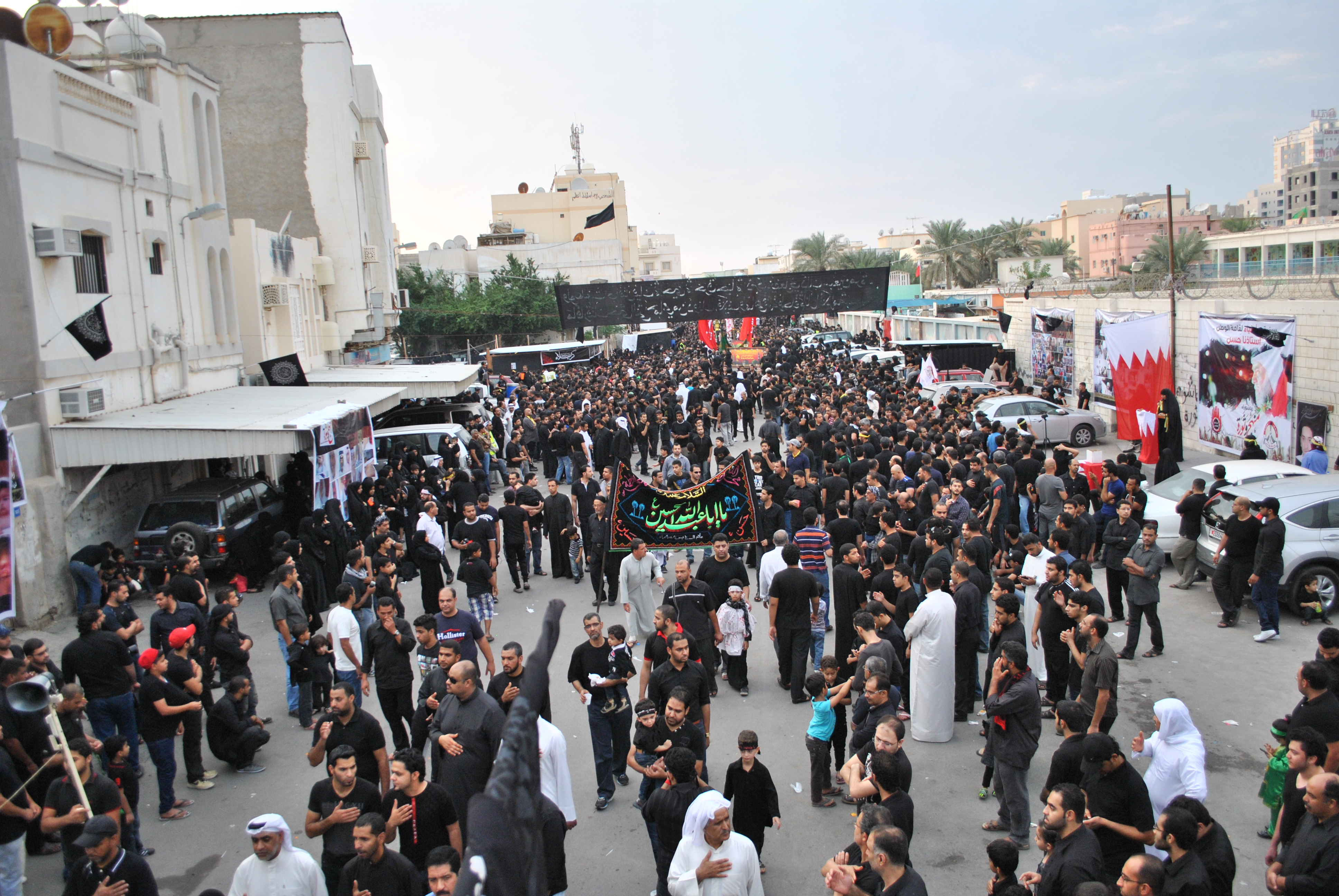 Bahraini Shia Muslims marching to celebrate Day of Ashura in Sanabis